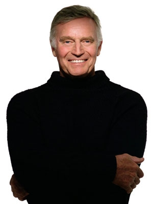 Charlton Heston photographed for Vanity Fair magazine by Jerry Avenaim